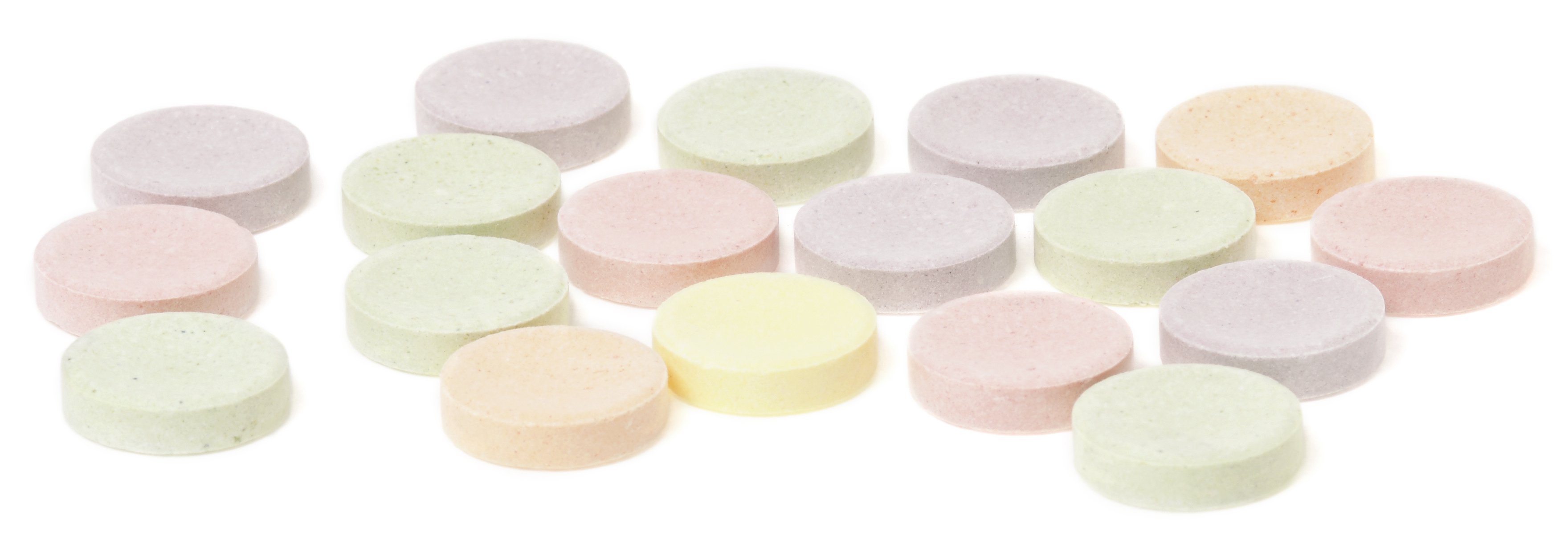 Giant-sized Smarties candy, the US version of the candy, which is a fruit-flavored sugar version compared to the candy-covered chocolate button UK version.